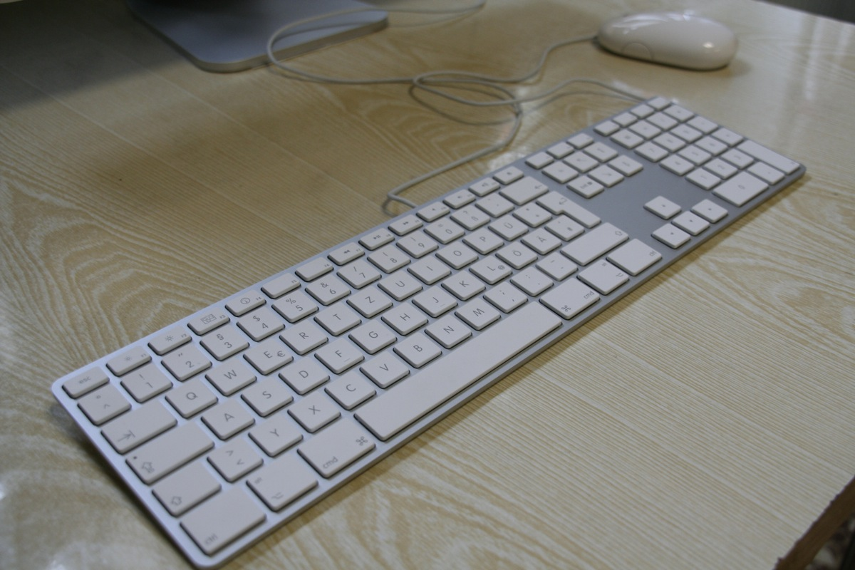 Wired Apple keyboard, anodized aluminum (2007).